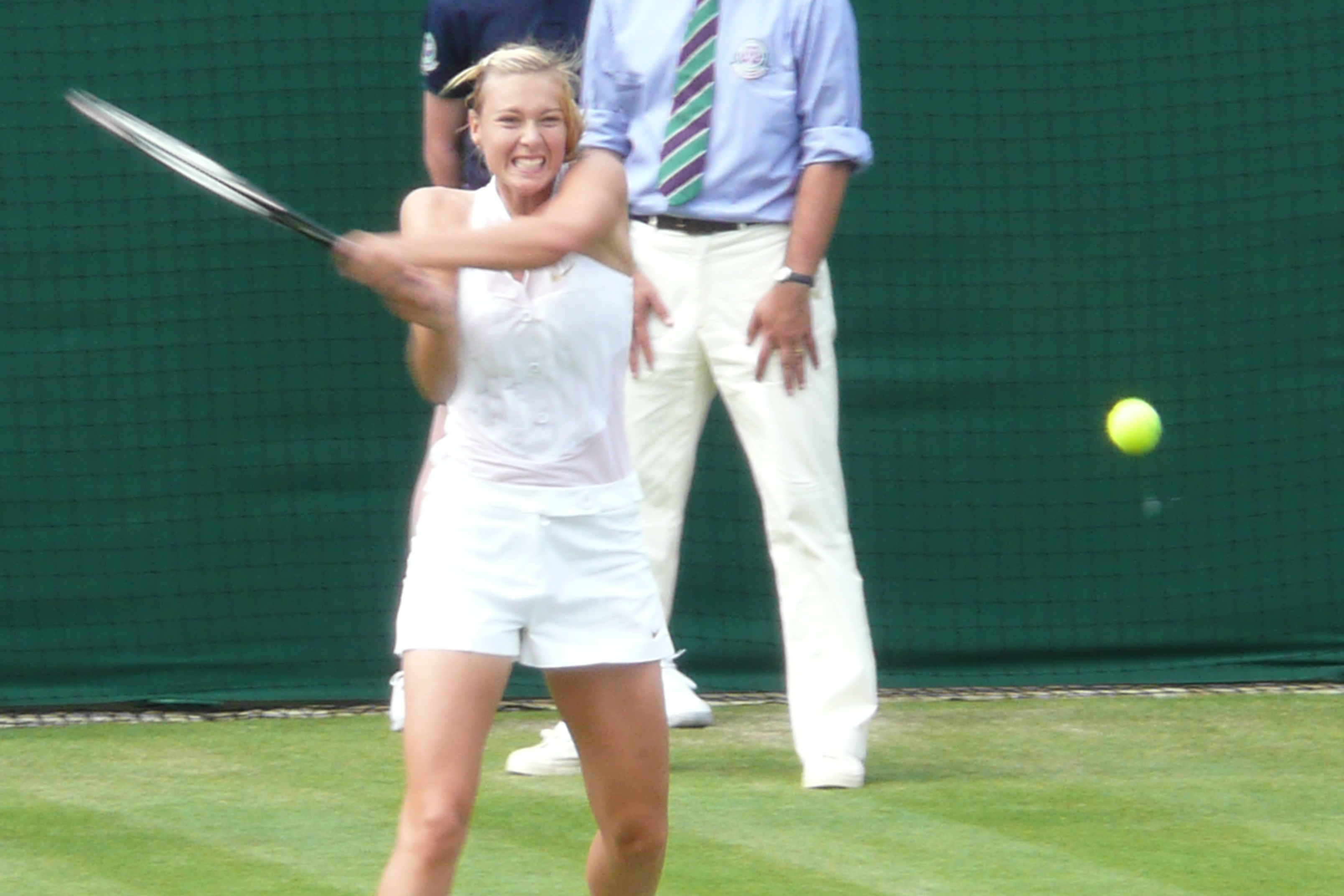 Maria Sharapova in action against Stéphanie Foretz in the first round of the 2008 Wimbledon Championships.